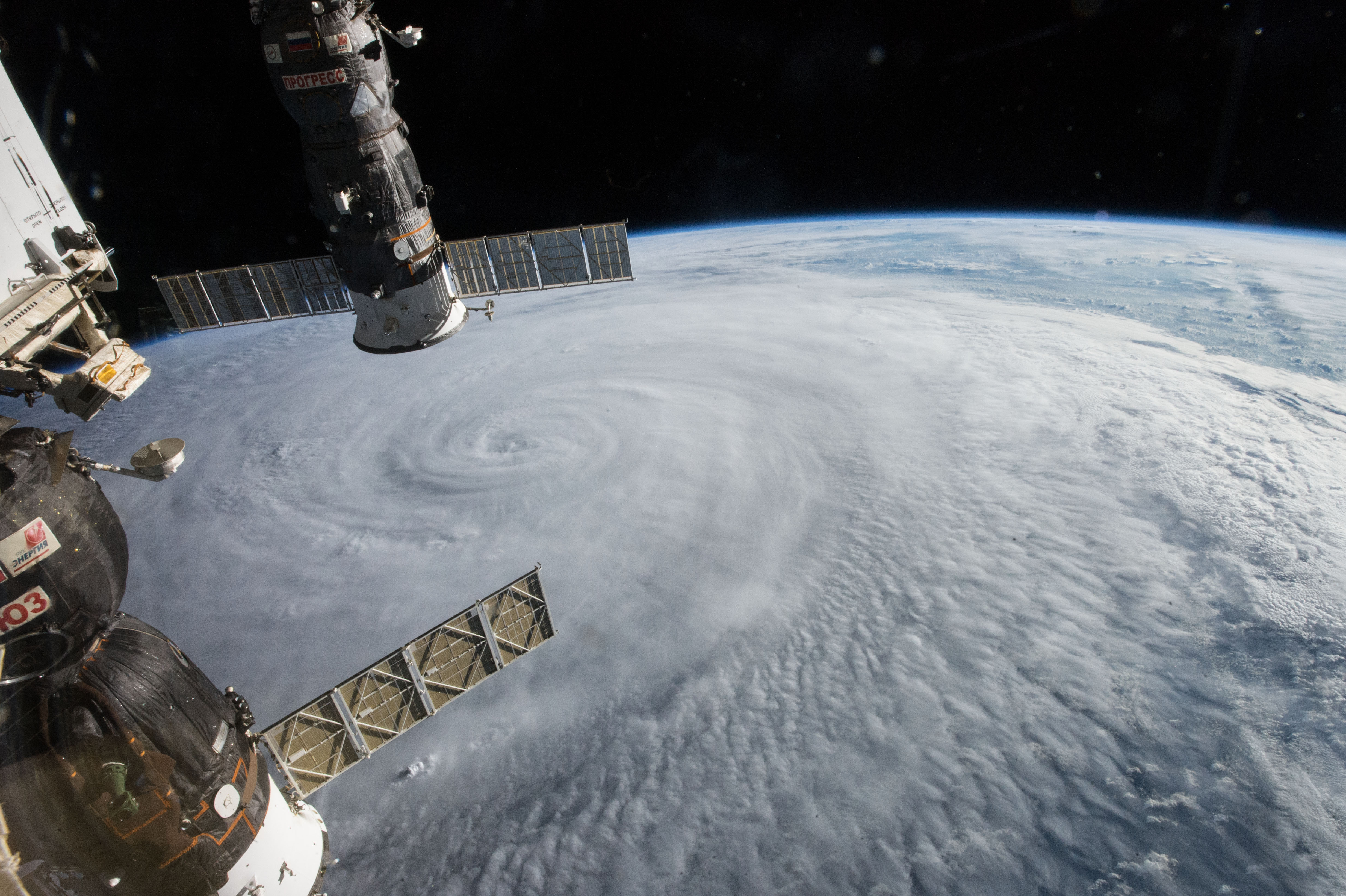 Typhoon Soudelor photographed from the International Space Station on Aug. 5, 2015 while the storm was traveling in the western Pacific. The Soyuz TMA-17M (bottom left) and the Progress 60 (top left) cargo craft are visible.